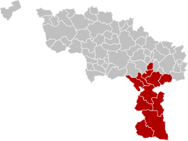 Map of Thuin District in province of Hainaut, Belgium.